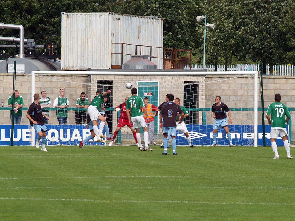 Northwich Victoria attack the Shakers goal during the Northwich Victoria vs. Bury pre-season friendly at The Marston’s Arena, home of Northwich Victoria FC. Saturday 2nd August 2008